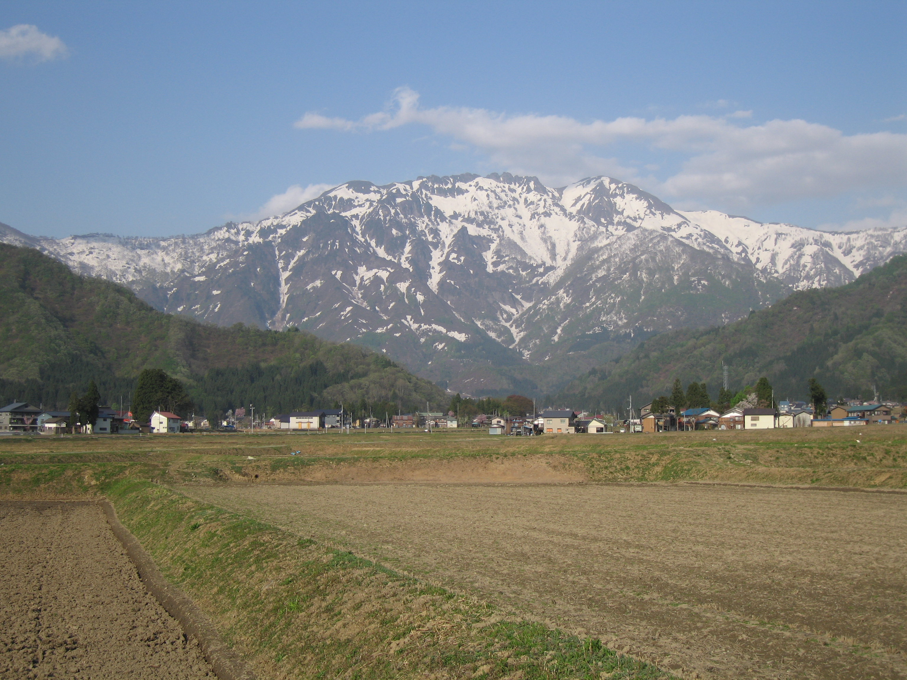 Mount Hakkai (Hakkai-san) as seen from the west in Minamiuonuma City, Niigata Prefecture, Japan